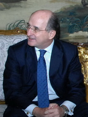 Antonio Brufau, presidente de Repsol YPF.